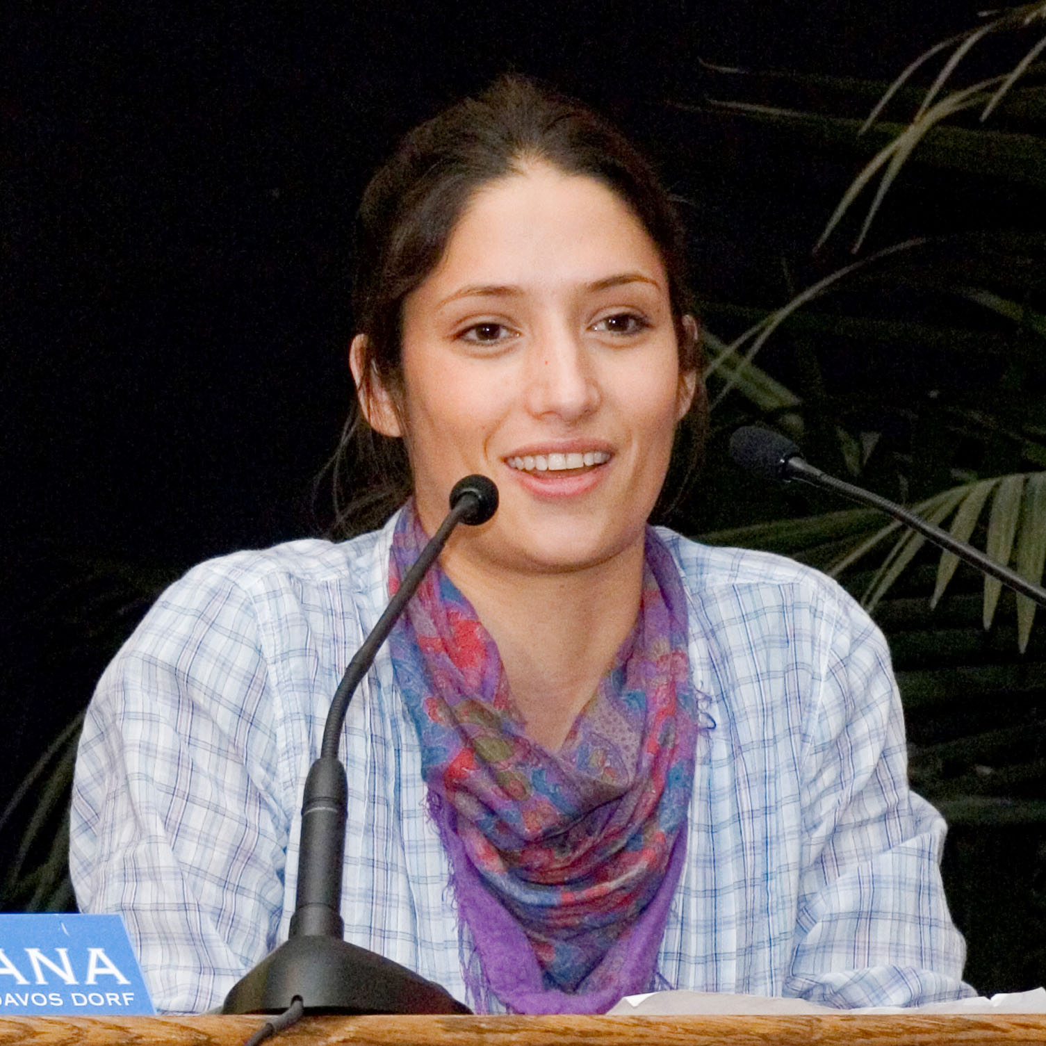 Melanie Winiger at the Public Eye Awards 2008, Davos, Schweiz, © nitsch.ch